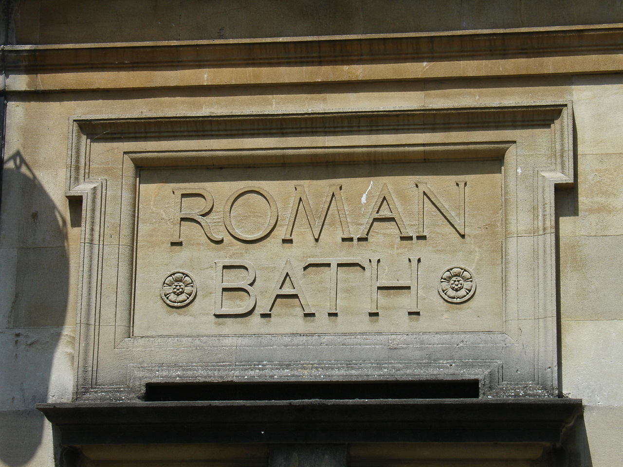 Roman Bath, Bath, Somerset, England